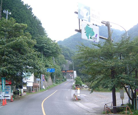 Tsukiyono Bus Stop on the National Route 413 in Doshi Village, Yamanashi Prefecture, Japan